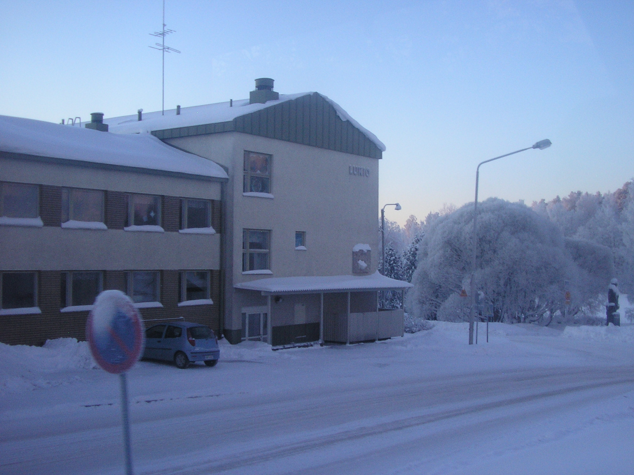 Viitasaari gymnasium, Finland